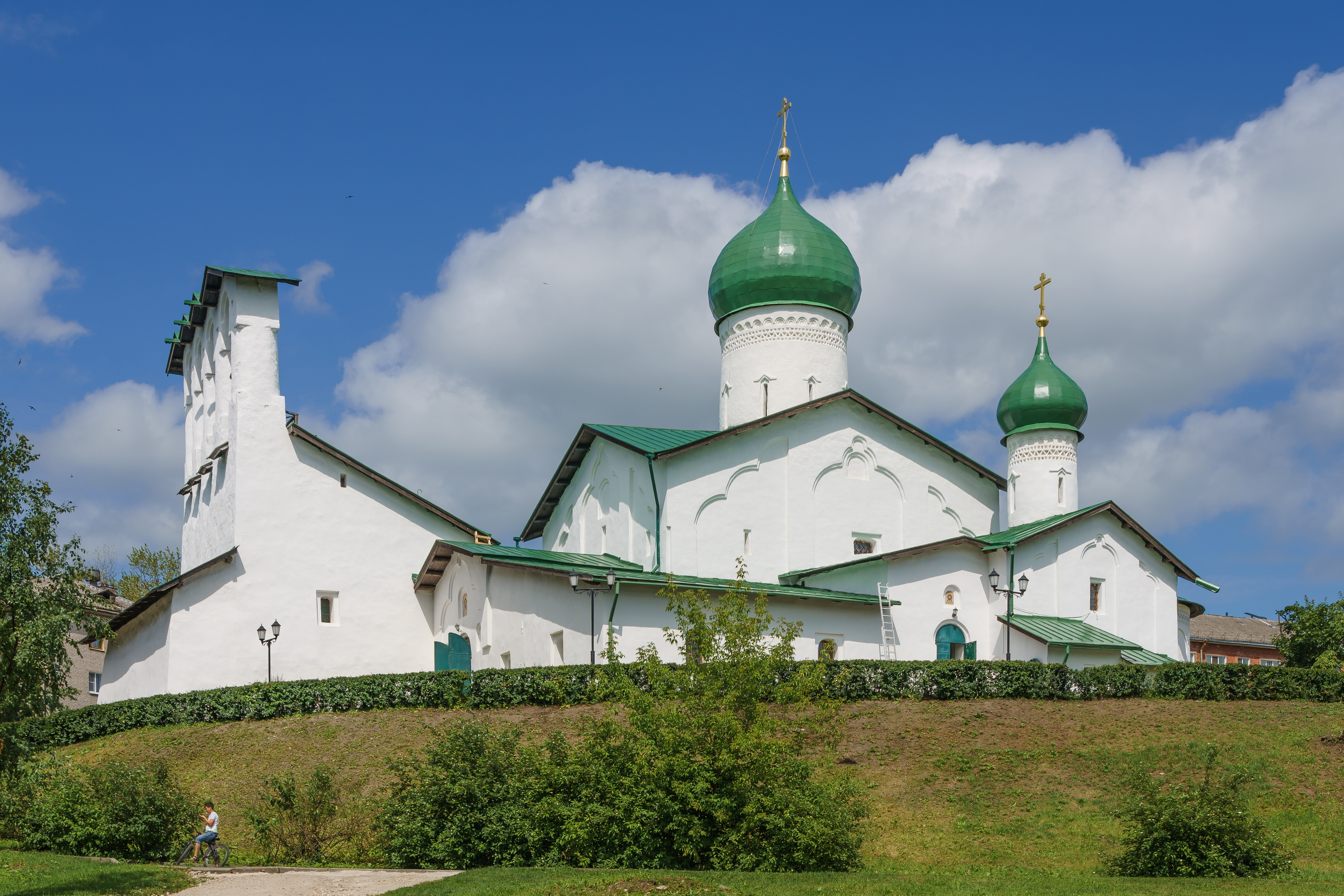 Epiphany Church «at Zapskovie» in Pskov, Russia